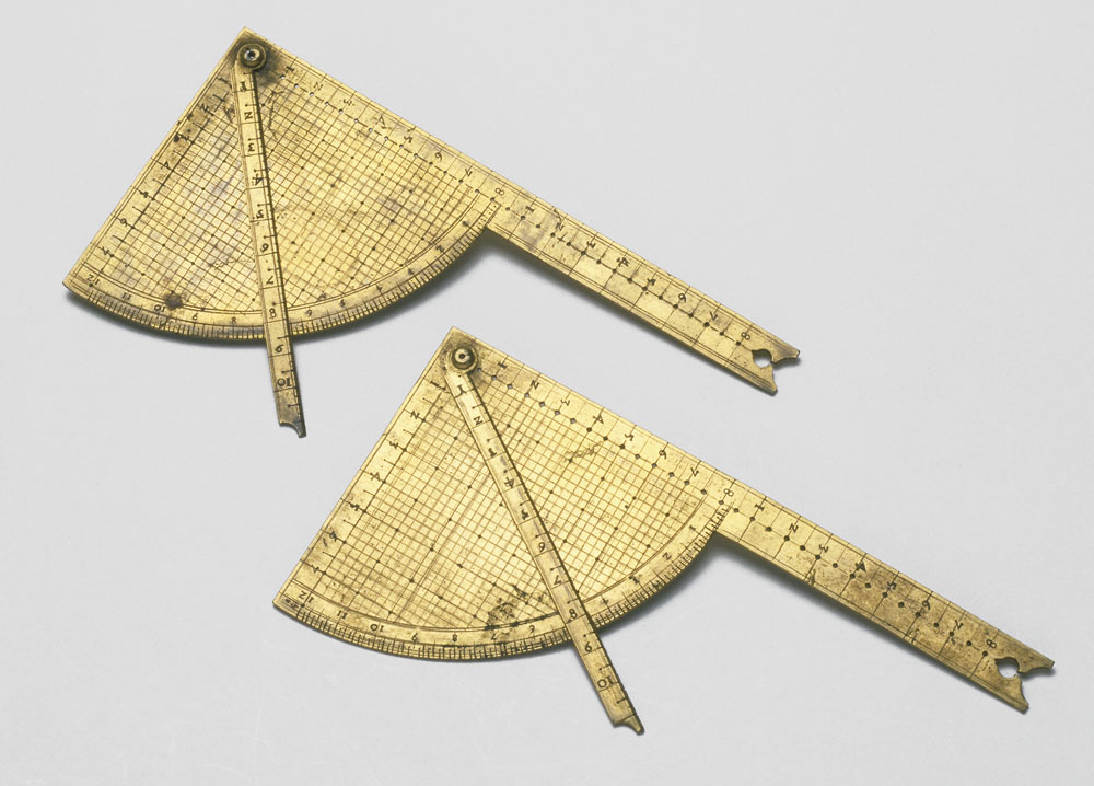 AuthorChristoph Schissler [attr.]Description